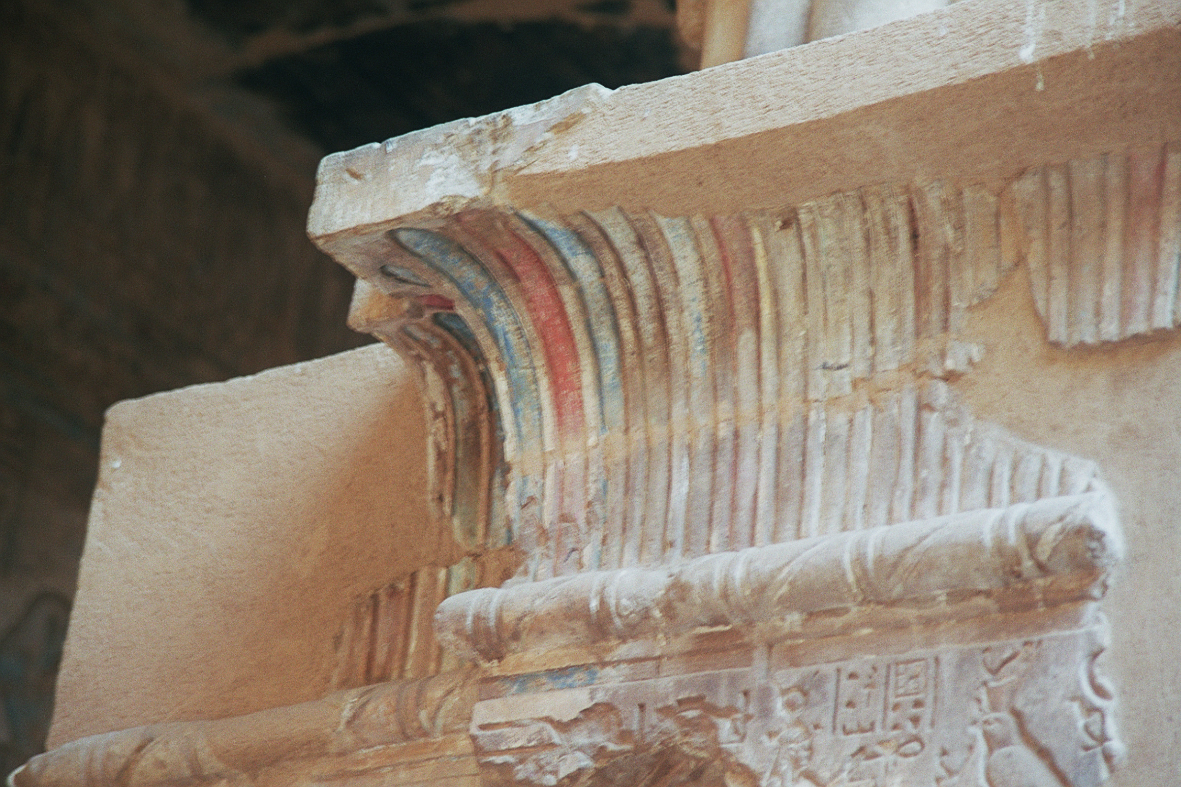 Colourful cavetto cornice of the Hathor-temple at Deir el-Medina